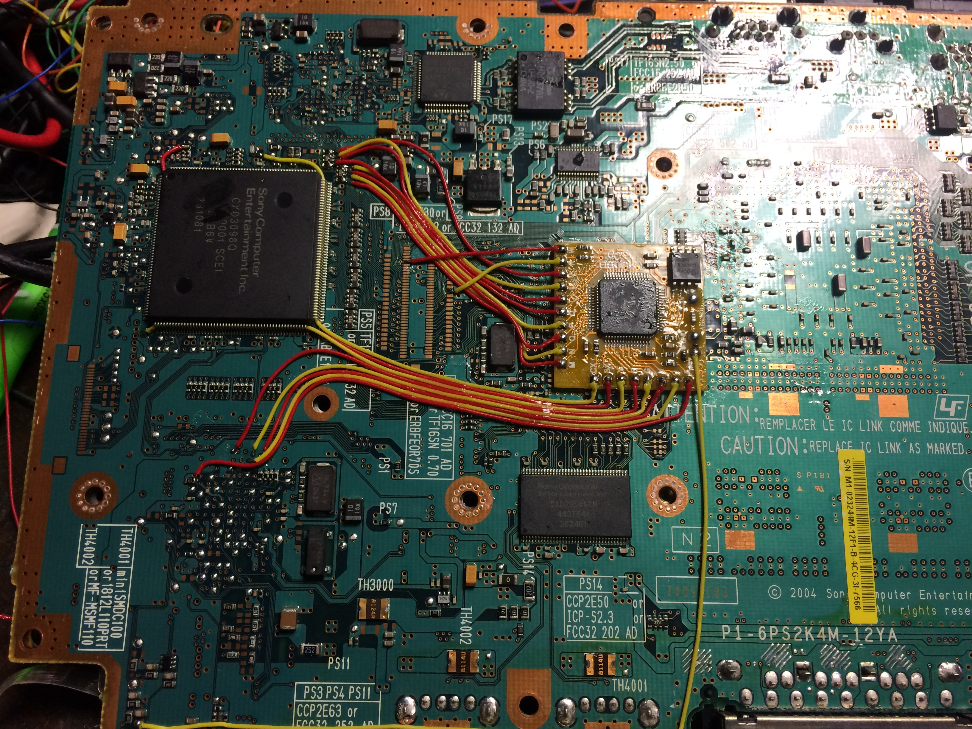 A Modbo Chip installed onto a PS2 Slim motherboard